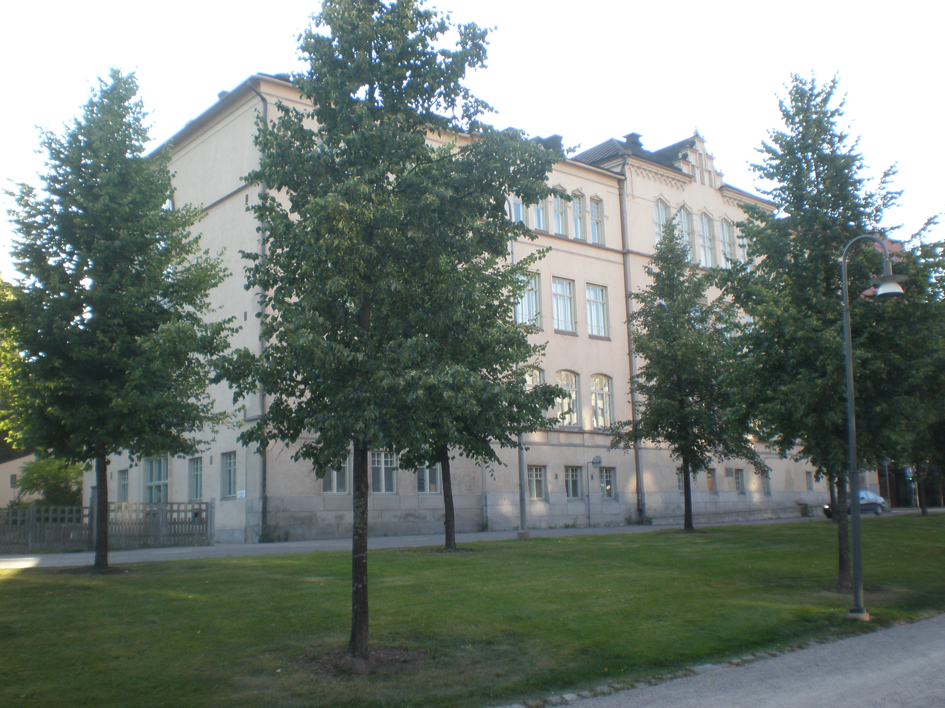 Pyynikki school